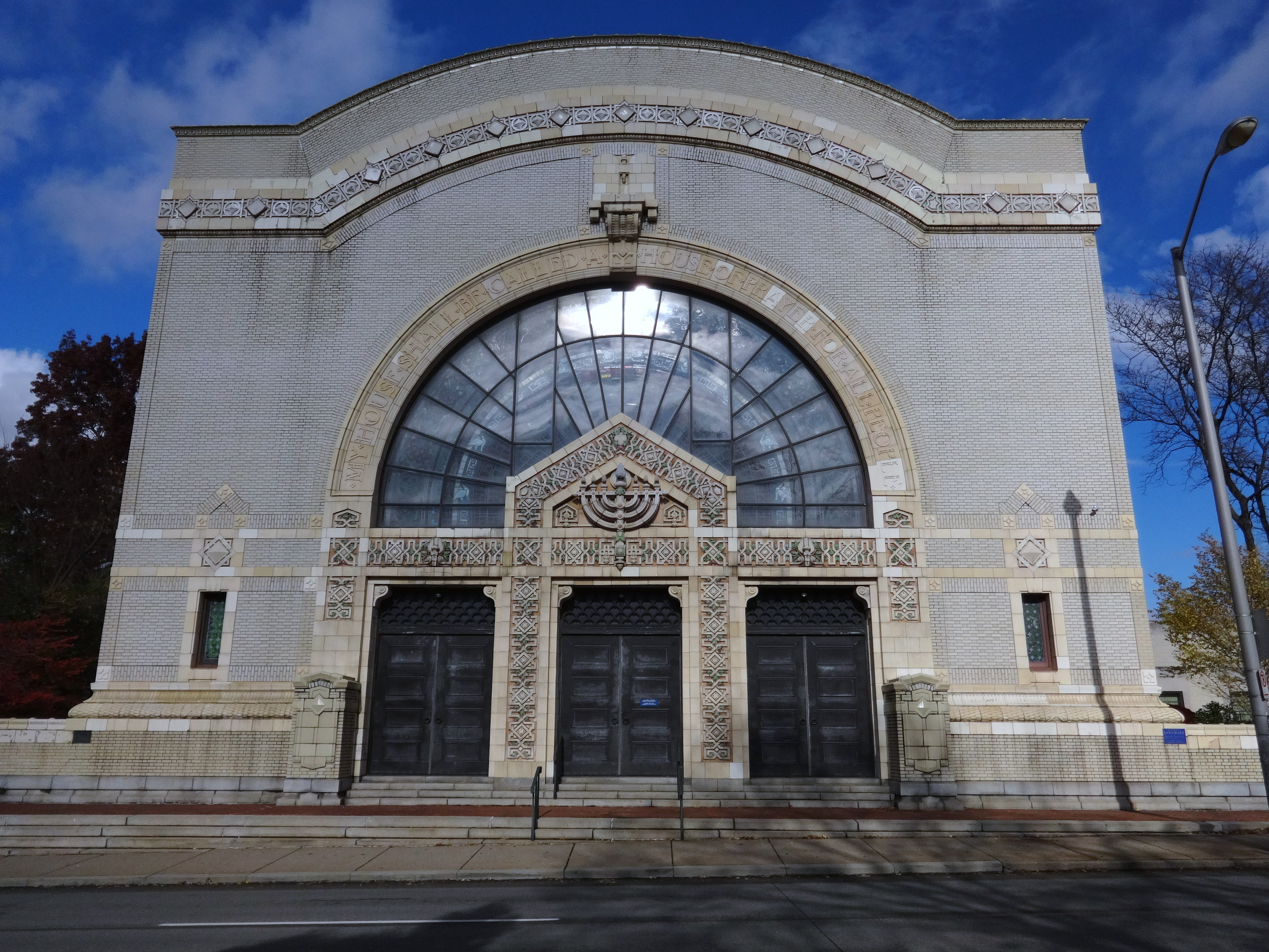 Rodef Shalom Temple, Pittsburgh, Pennsylvania.